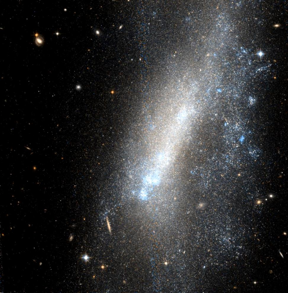 IC 1727 - The Geometry and Kinematics of the Local Volume - HST Proposal 12546